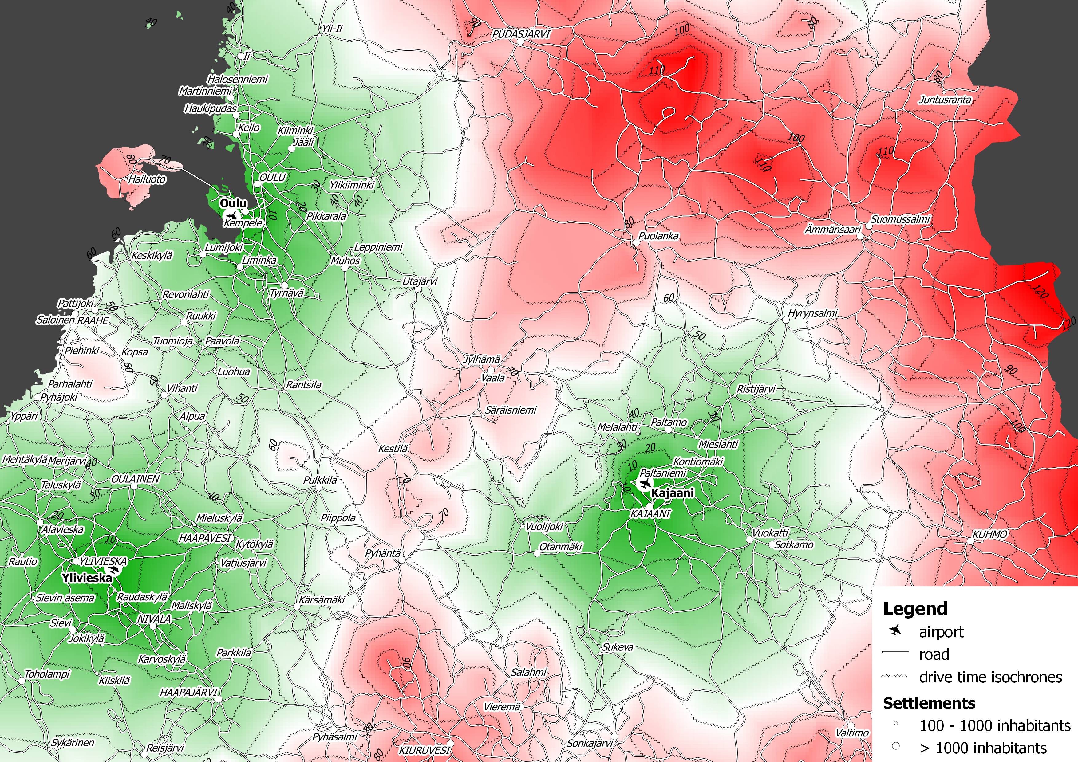 Drive time isochrones around airports in northern Finland